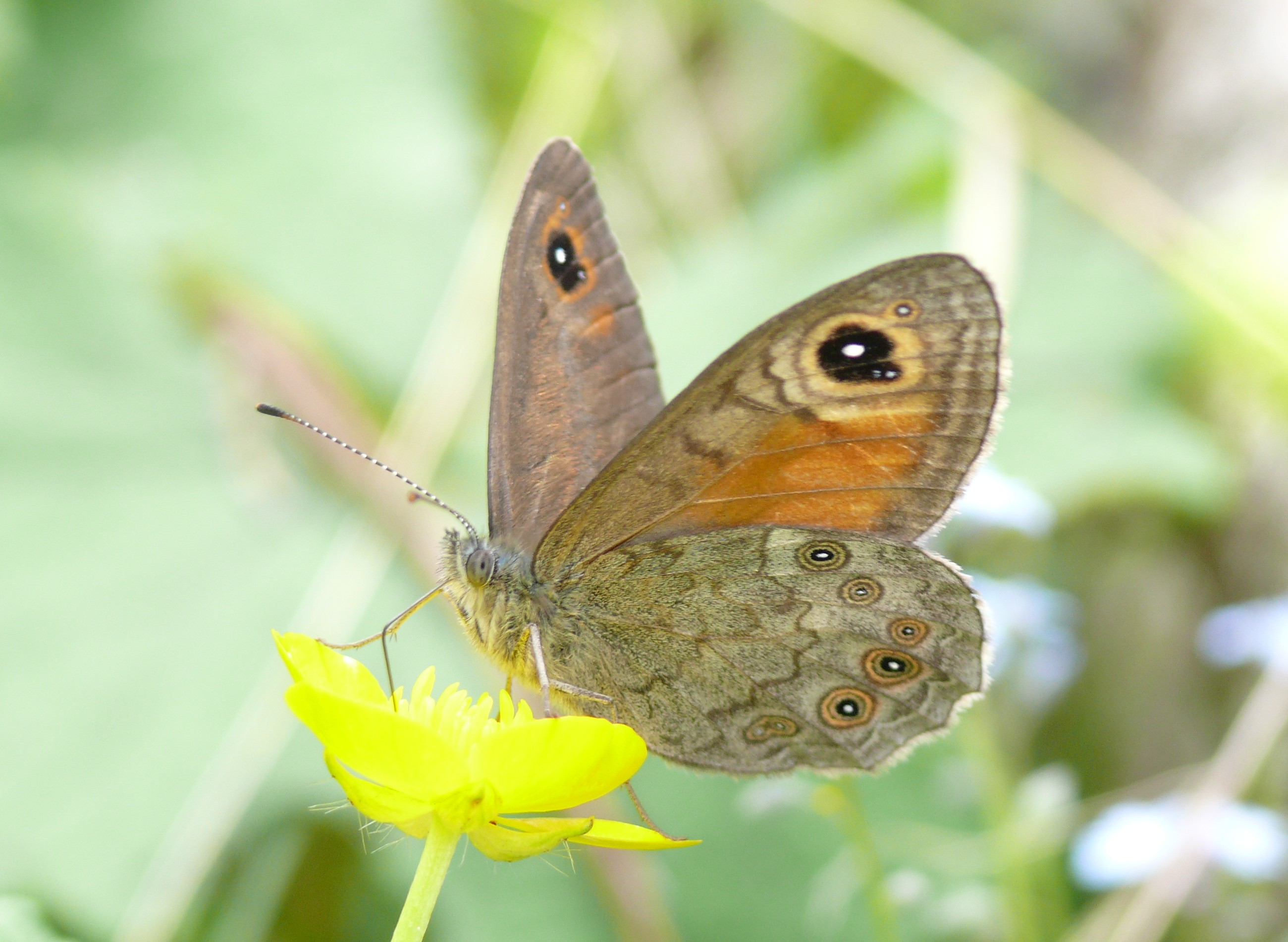 female Large Wall Brown (Lasiommata maera), South Tyrol